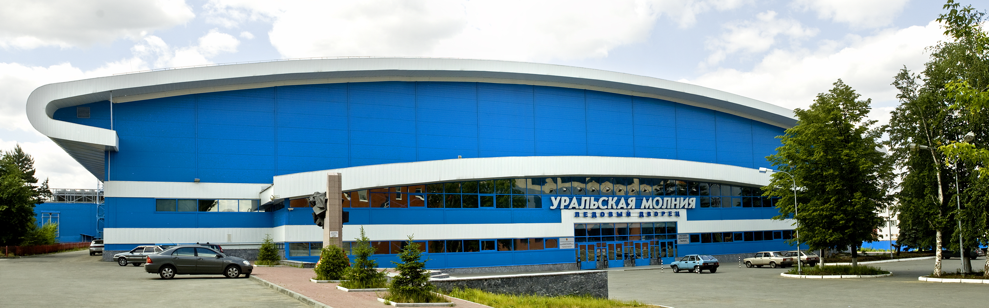 photos of the city of Chelyabinsk, Russia